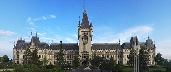 Palace of Culture, Iasi, Romania 01